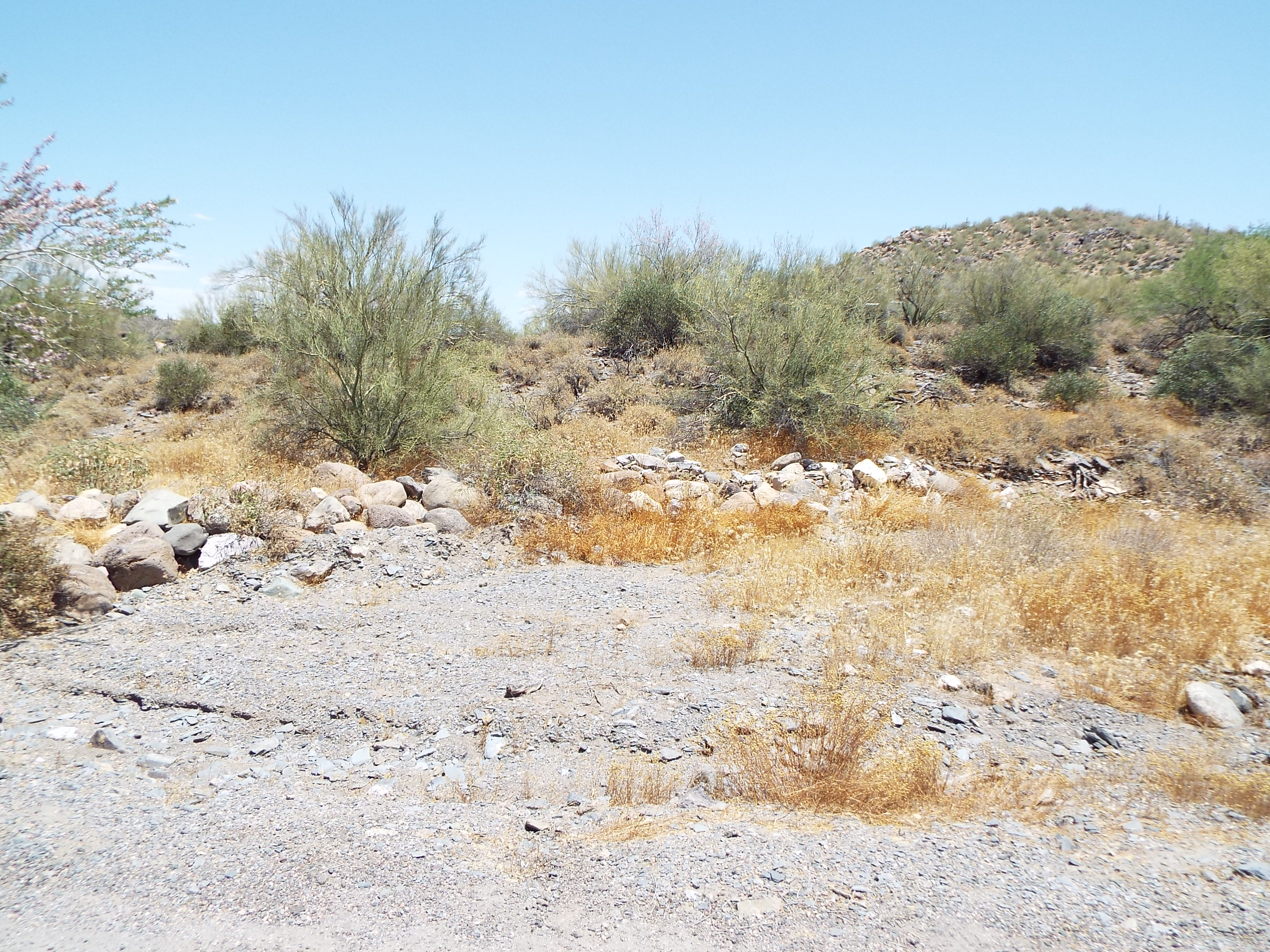 Ruins alongside what remains of the historic 1865 Stoneman Military Trail in the Black Mountains of Cave Creek, Arizona.